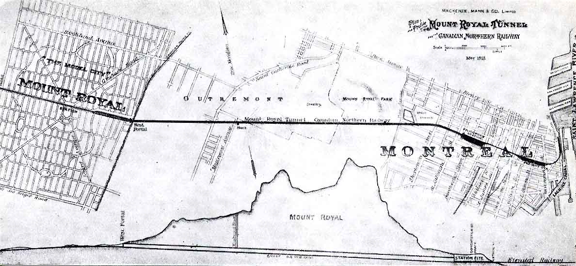 Plan of the “Model City”, Mount Royal for the Canadian Northern Railway showing the proposed street plan as well as the tunnel layout through Outremont to downtown Montréal and cross section of the Mount Royal. Actual street plan is different.